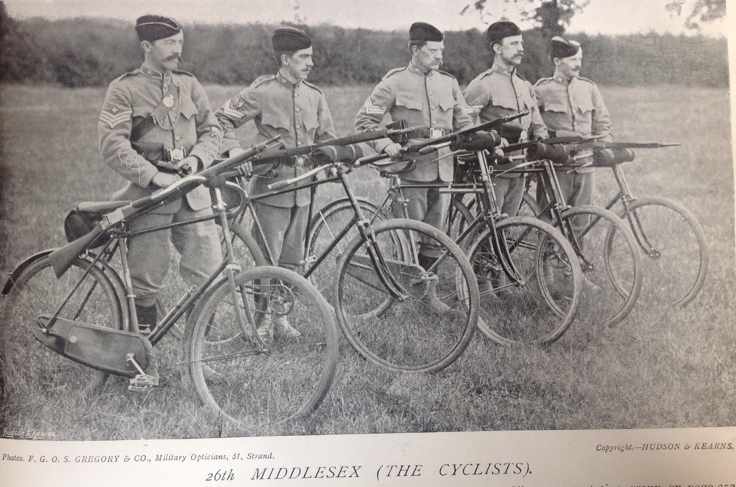 26th Middlesex Rifle Volunteers (Cyclists). Pictured in the Navy and Army Illustrated published on 9 April 1896